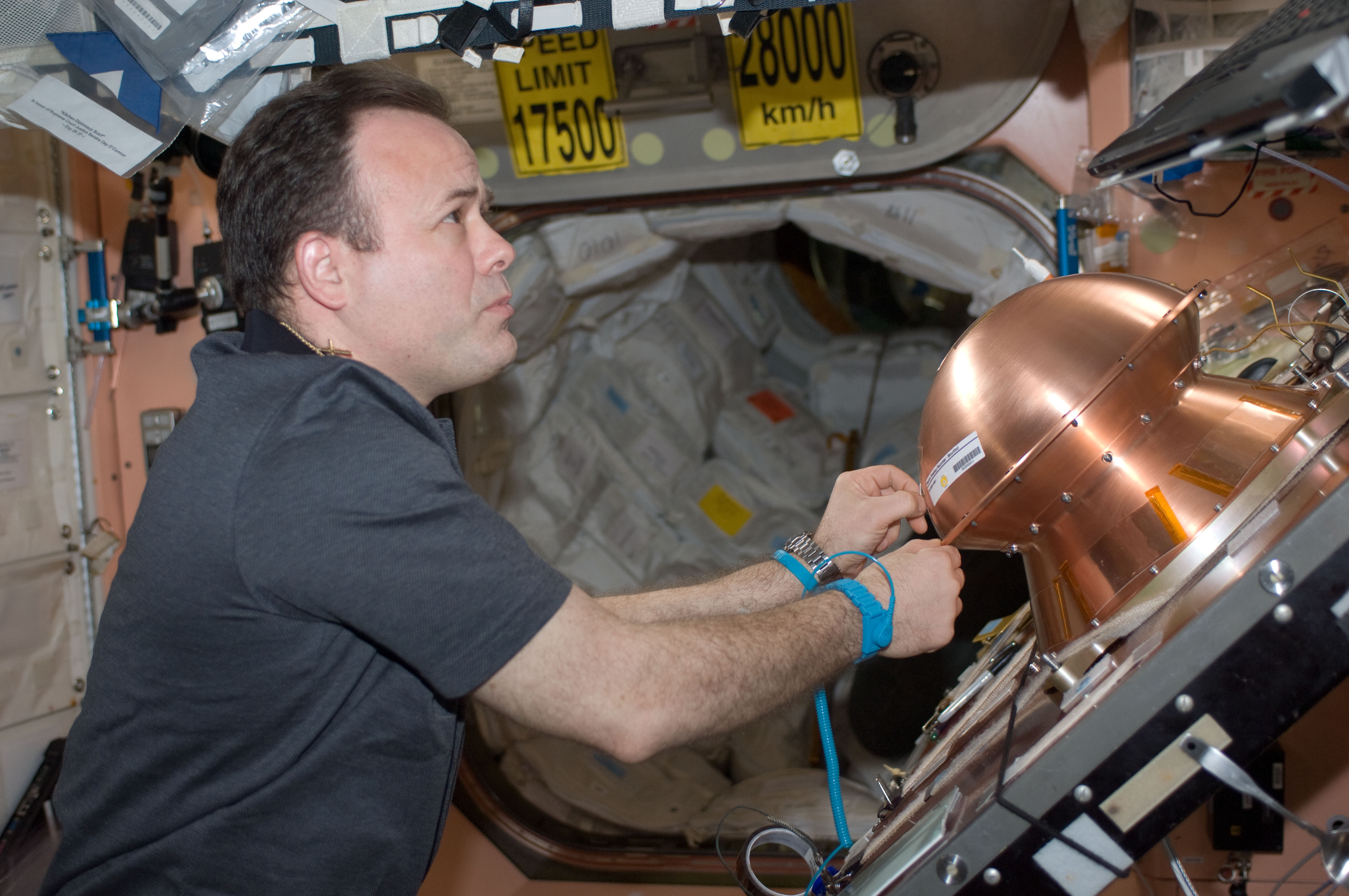 In the Unity node of the International Space Station, NASA astronaut Ron Garan, Expedition 28 flight engineer, prepares the Reentry Breakup Recorder (REBR) for installation in the Automated Transfer Vehicle-2 (ATV-2). The ATV-2 is scheduled to undock from the station on June 20, 2011. REBR data improves the understanding of vehicle breakup during reentry, allowing improvements in prediction of the breakup process, increasing the accuracy of estimated casualty expectations, and limiting premature deorbiting of space hardware. In the long term, this research assists in the development of a "black box" for commercial space transportation systems.